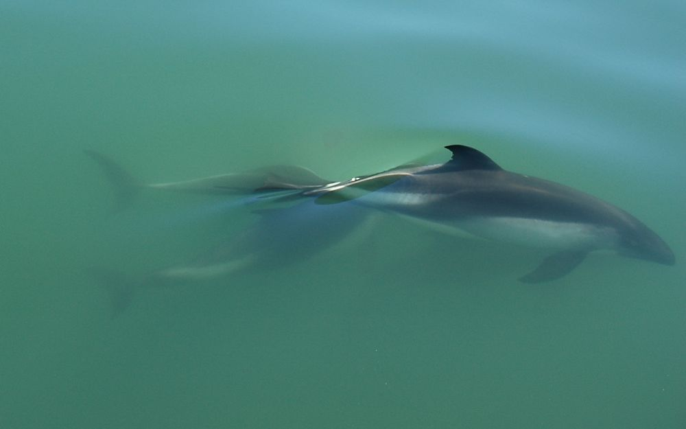 Peale's Dolphin, Near Ventisquero Pio XI, Feb 2006.